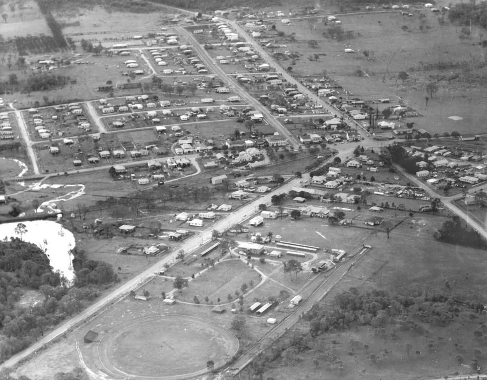 Aerial view of Beenleigh, 1954. This is an inversed image.